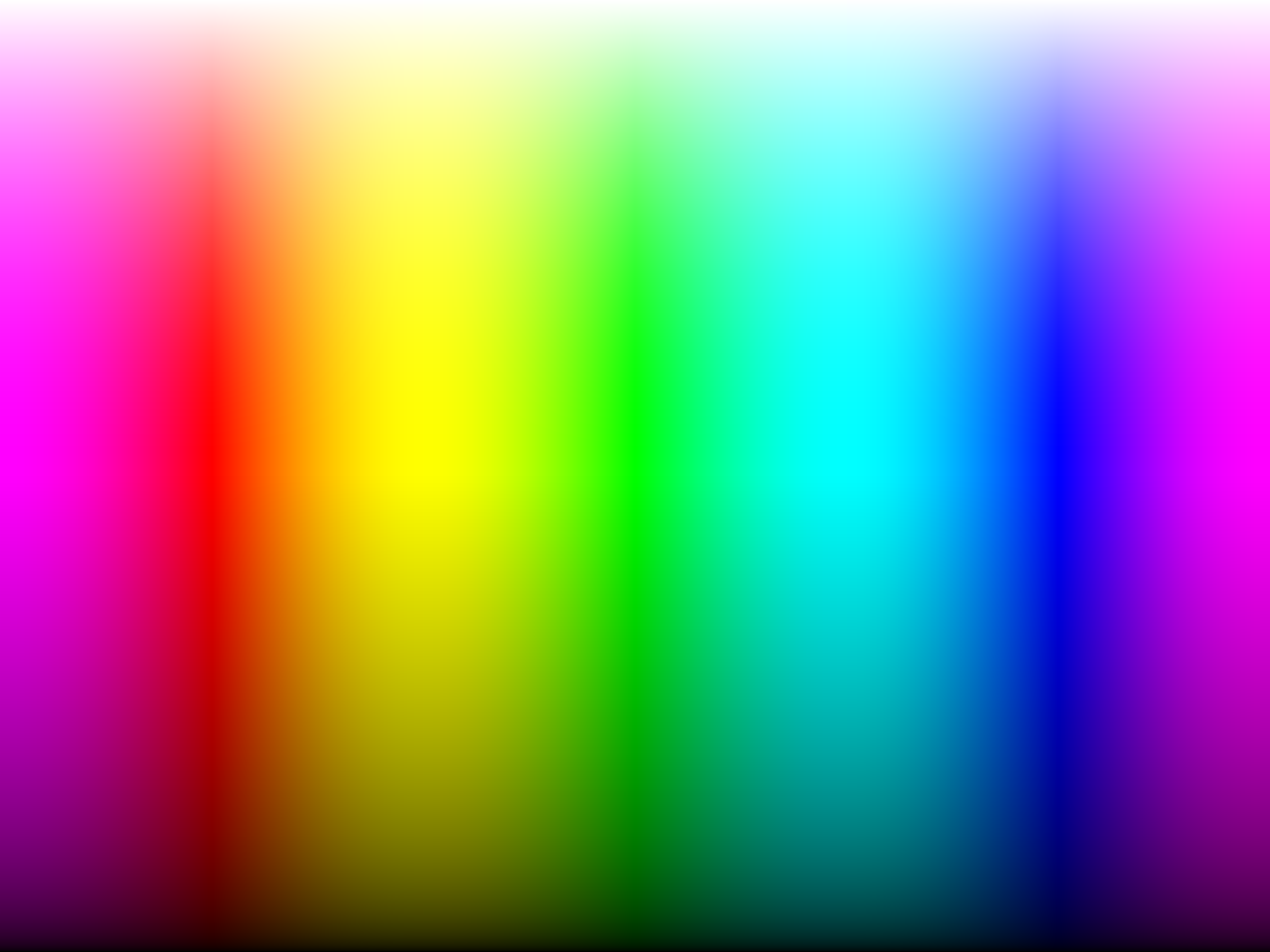 Probably an HSV color space. The visible spectrum goes from red to violet, not from violet to violet.